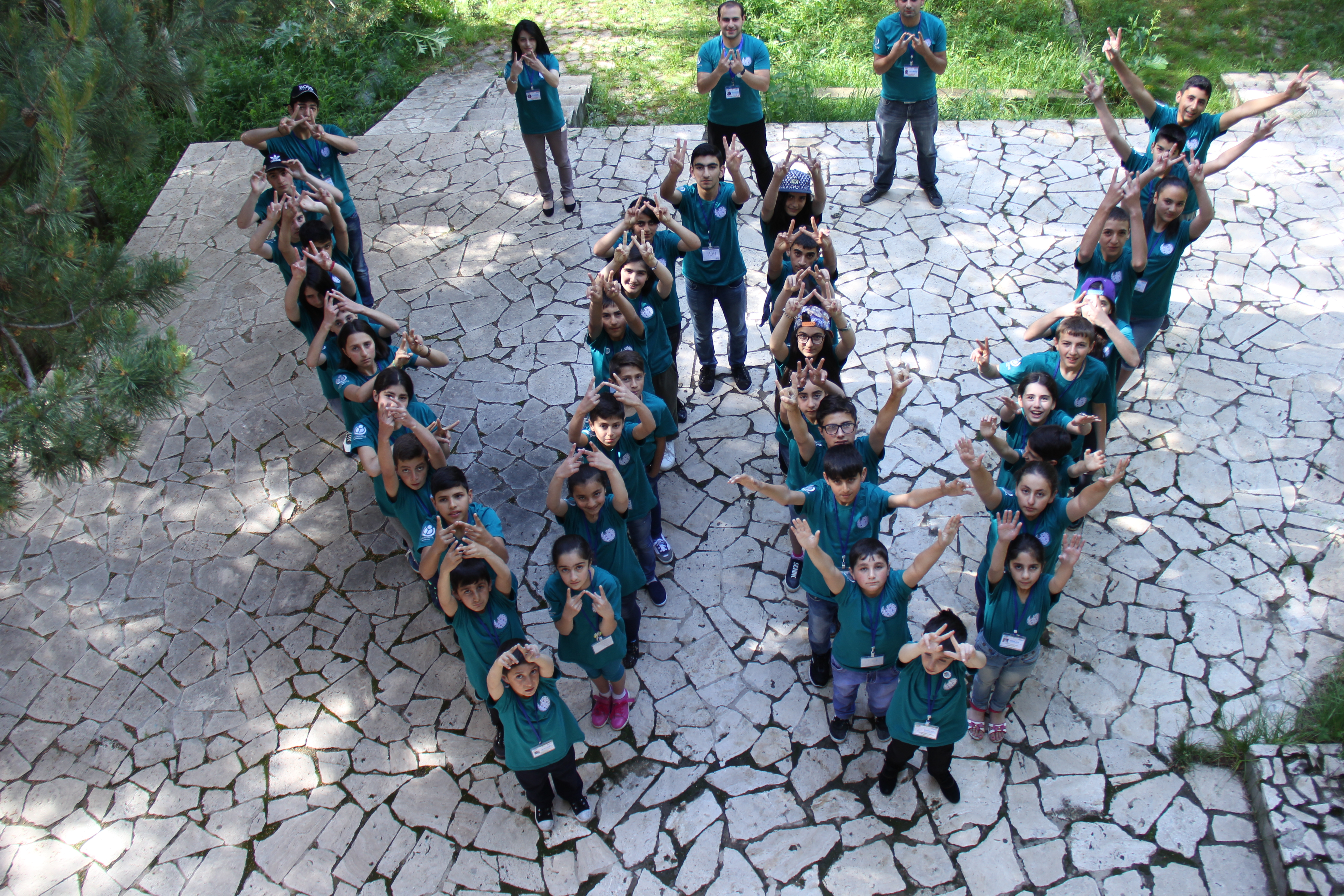 Summer WikiCamp 2017 (I)